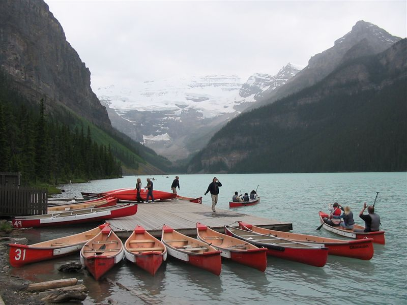 Canoe livery, showing rental canoes, at Lake Louise in Banff National Park, Alberta, Canada.